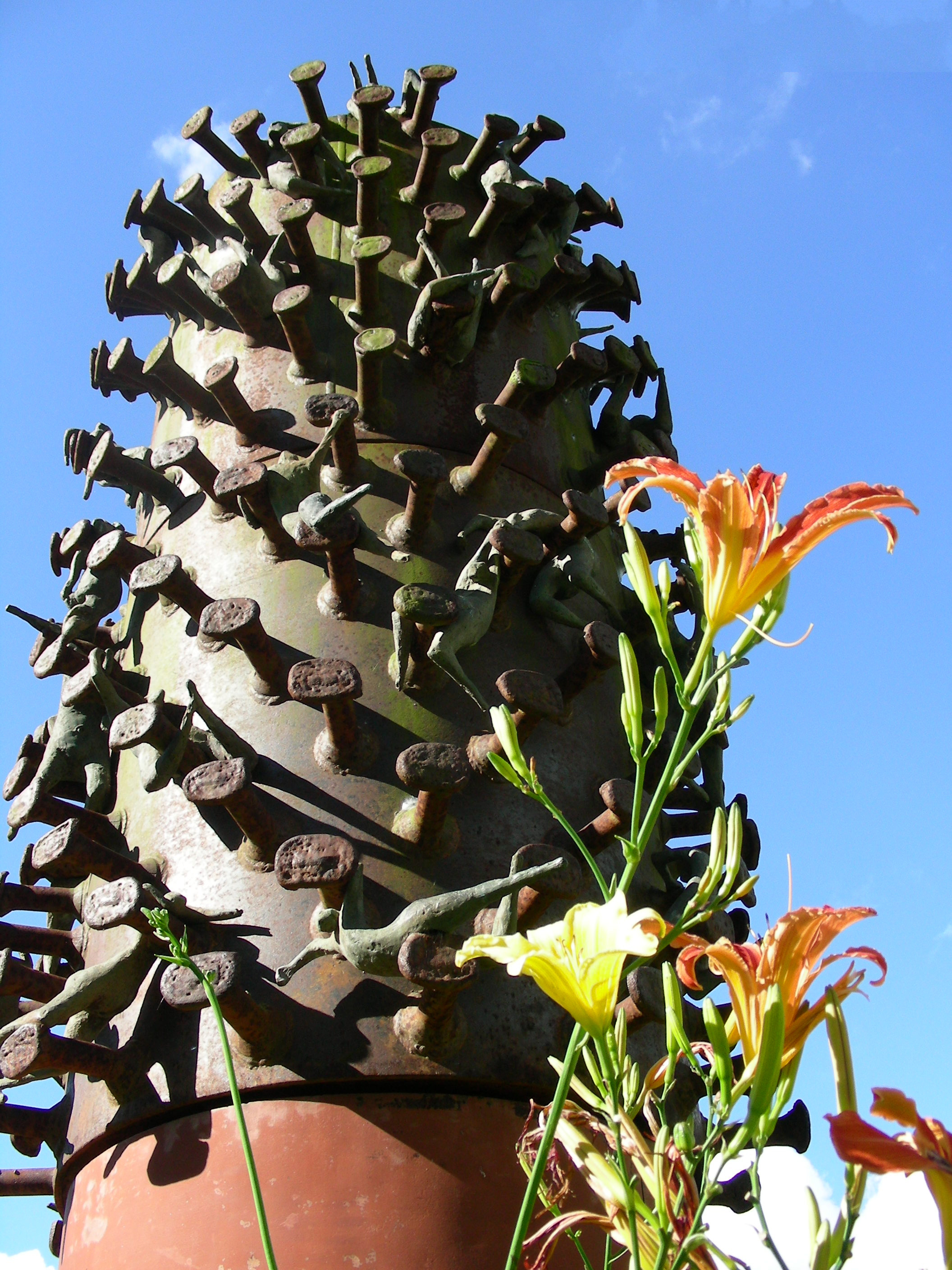 "El hombre y la máquina" (The man and the machine), Carlos Julio Prada, USB, Caracas, Venezuela.